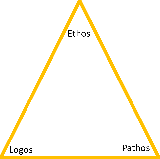 An image of the rhetorical triangle for rhetorical stance